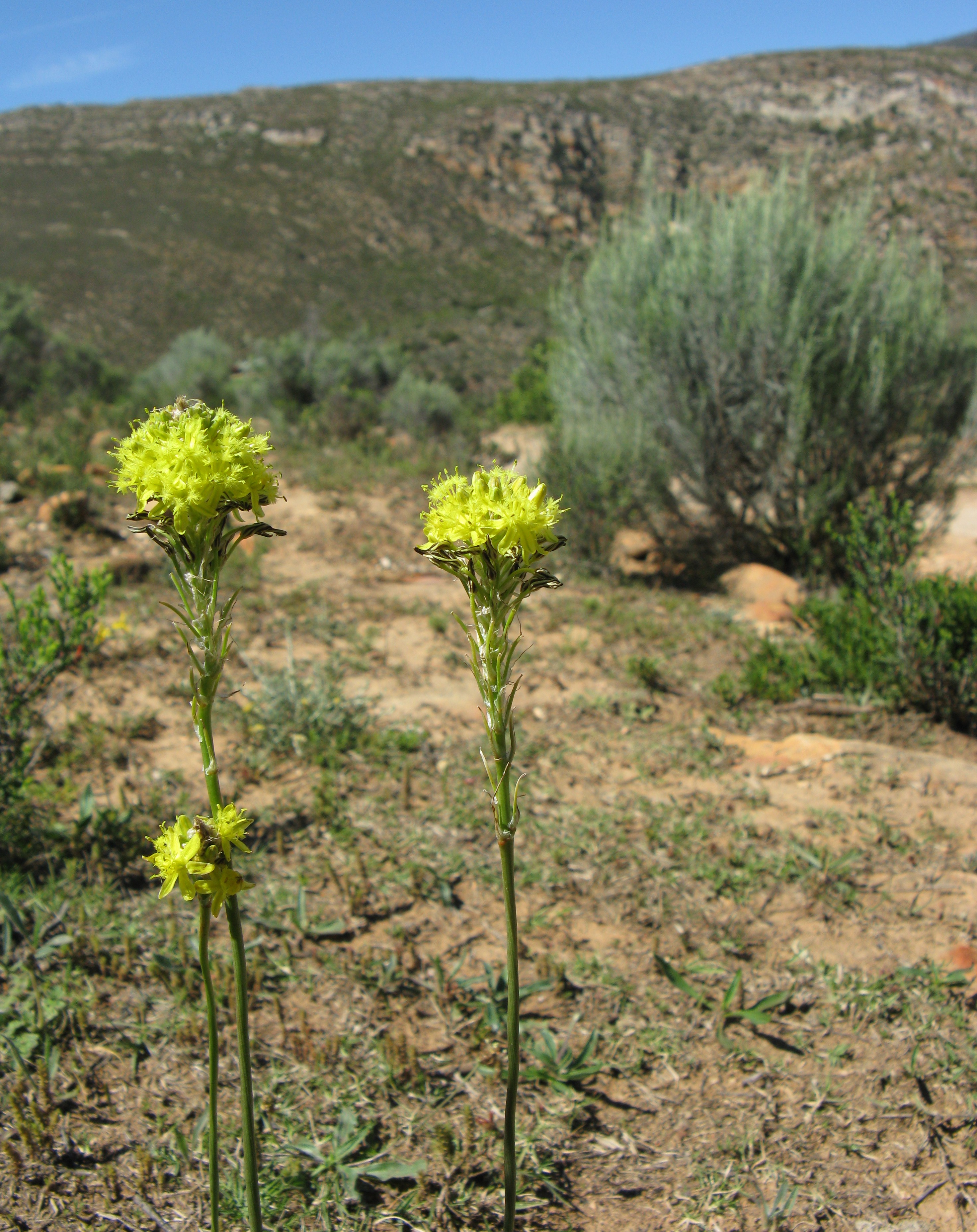 Bulbine lagopus in a conservation park near Uniondale, Western Cape, South Africa. It is in a typical fynbos of a mountainous area of the Little Karoo.